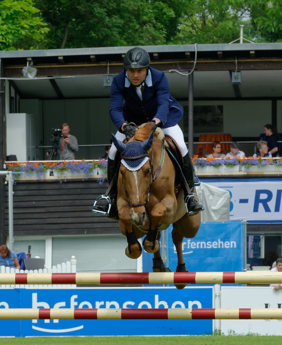 CSIYH* int. Springprüfung nach Strafpunkten und Zeit Internationales Pfingstturnier Wiesbaden 2015 The making of this document was supported by the Community-Budget of Wikimedia Germany.